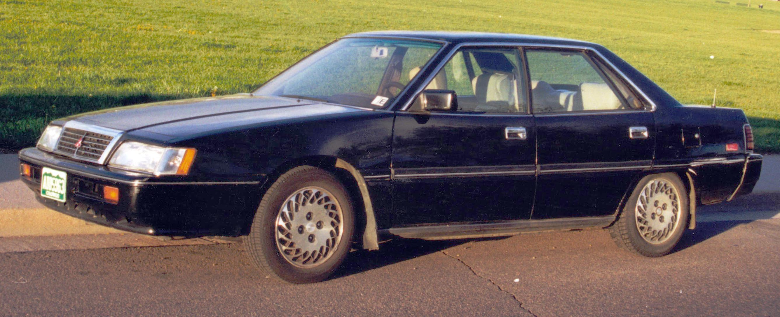 1990 Mitsubishi Sigma, photographed in Denver, Colorado.